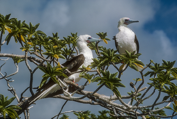 Pair of red-footed boobies roosting in Salt Bush (Heliotropium foertherianum) in Kiritimati (Christmas Island), Line Islands, Kiribati